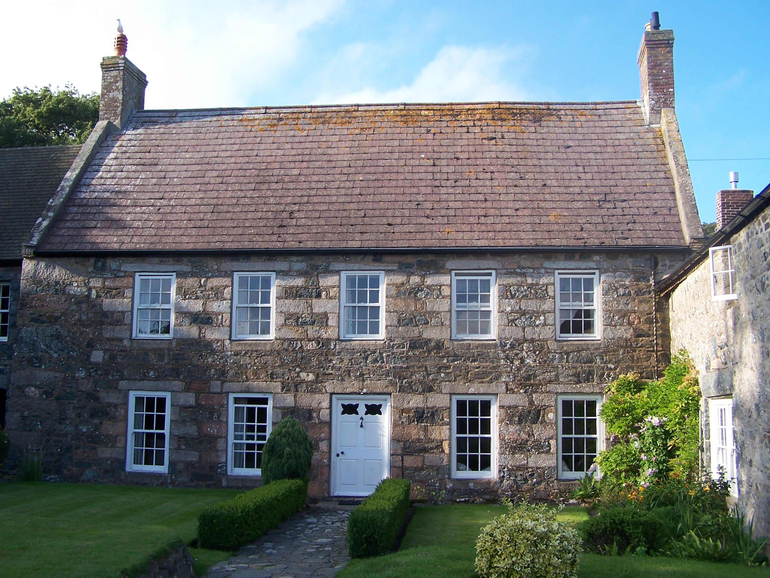 Le Manoir, built in the 16th century by Helier de Carteret, the first Seigneur of Sark. In the east, partly visible on the right in my image, adjoins a long row of cottages, right angled to the main building, containing an even older home of the Seigneur and the former church and school rooms of Sark's island.